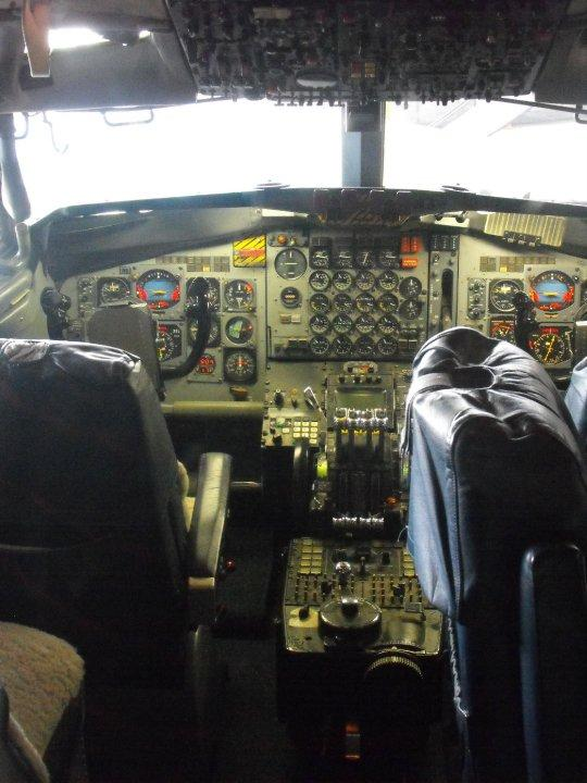 Picture of Sam 26000 cockpit in Dayton, Ohio